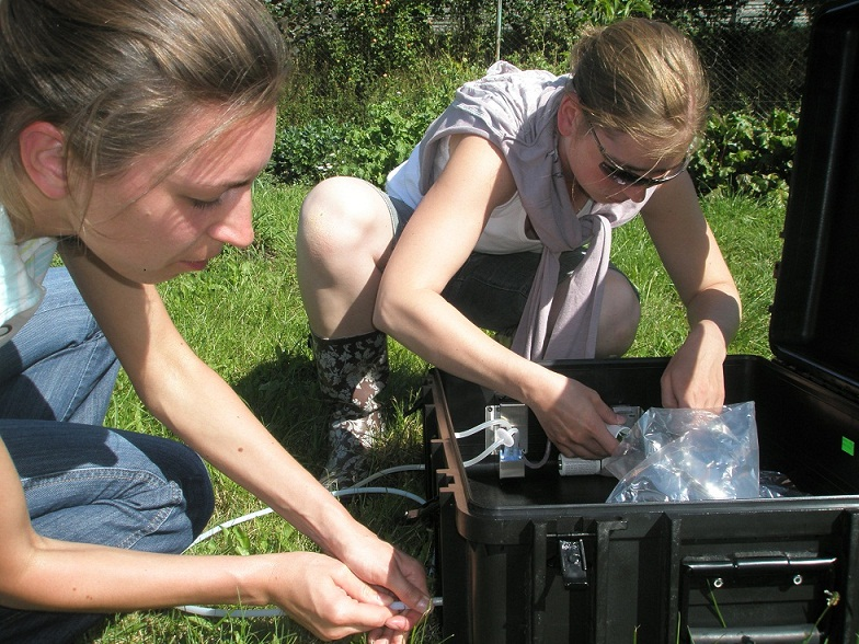 Odour_Sampling 6